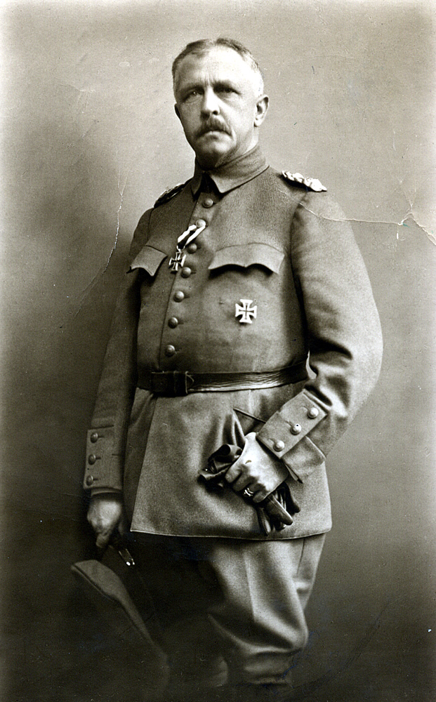 Heinrich XXVII., Principality of Reuss Junior Line